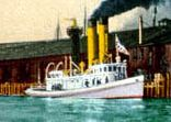 Fireboat "David Scannell" Throwing 9000 Gallons per minute from 20 Streams